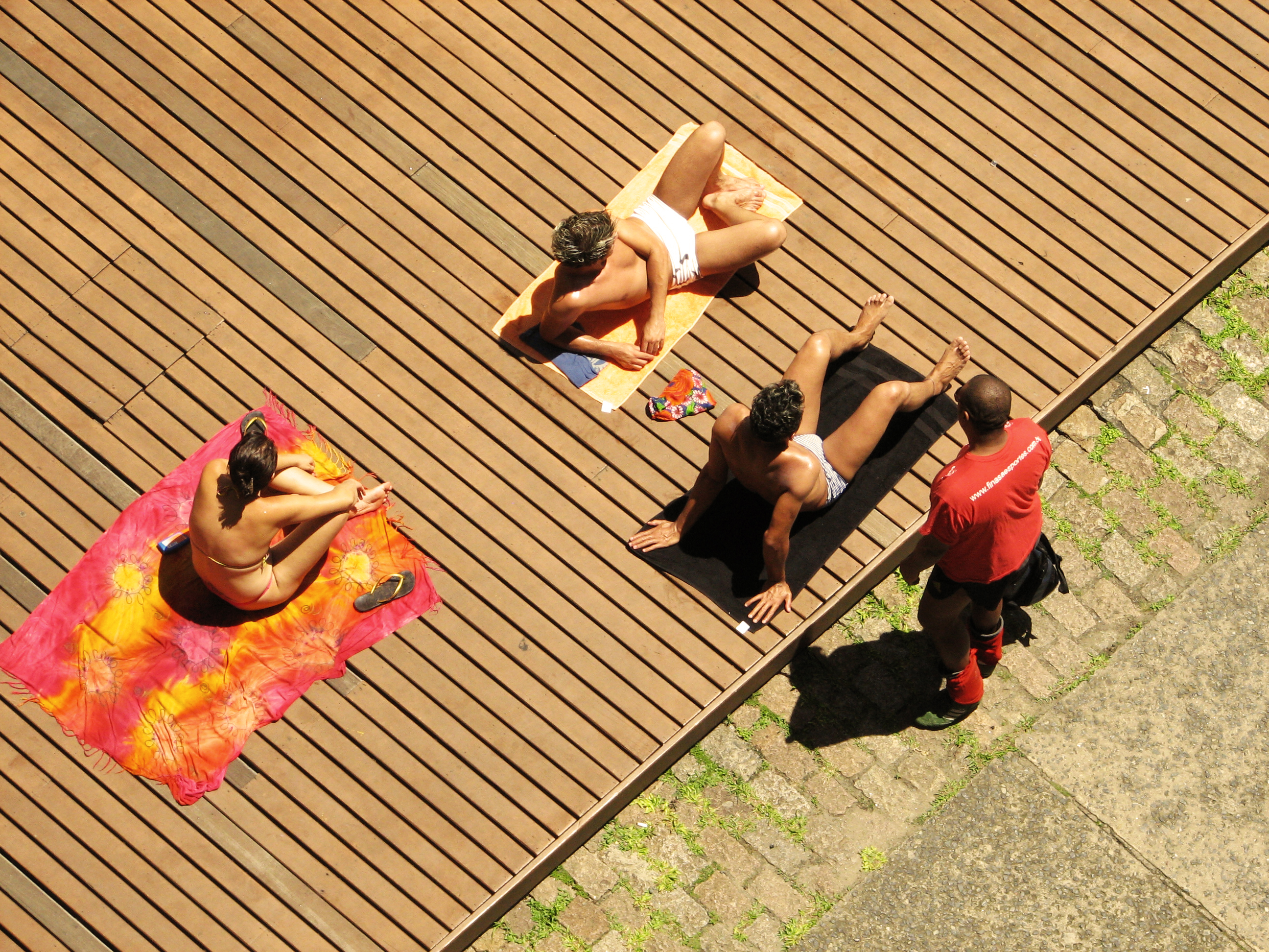 Sun tanning in February in Sao Paulo, Brazil.